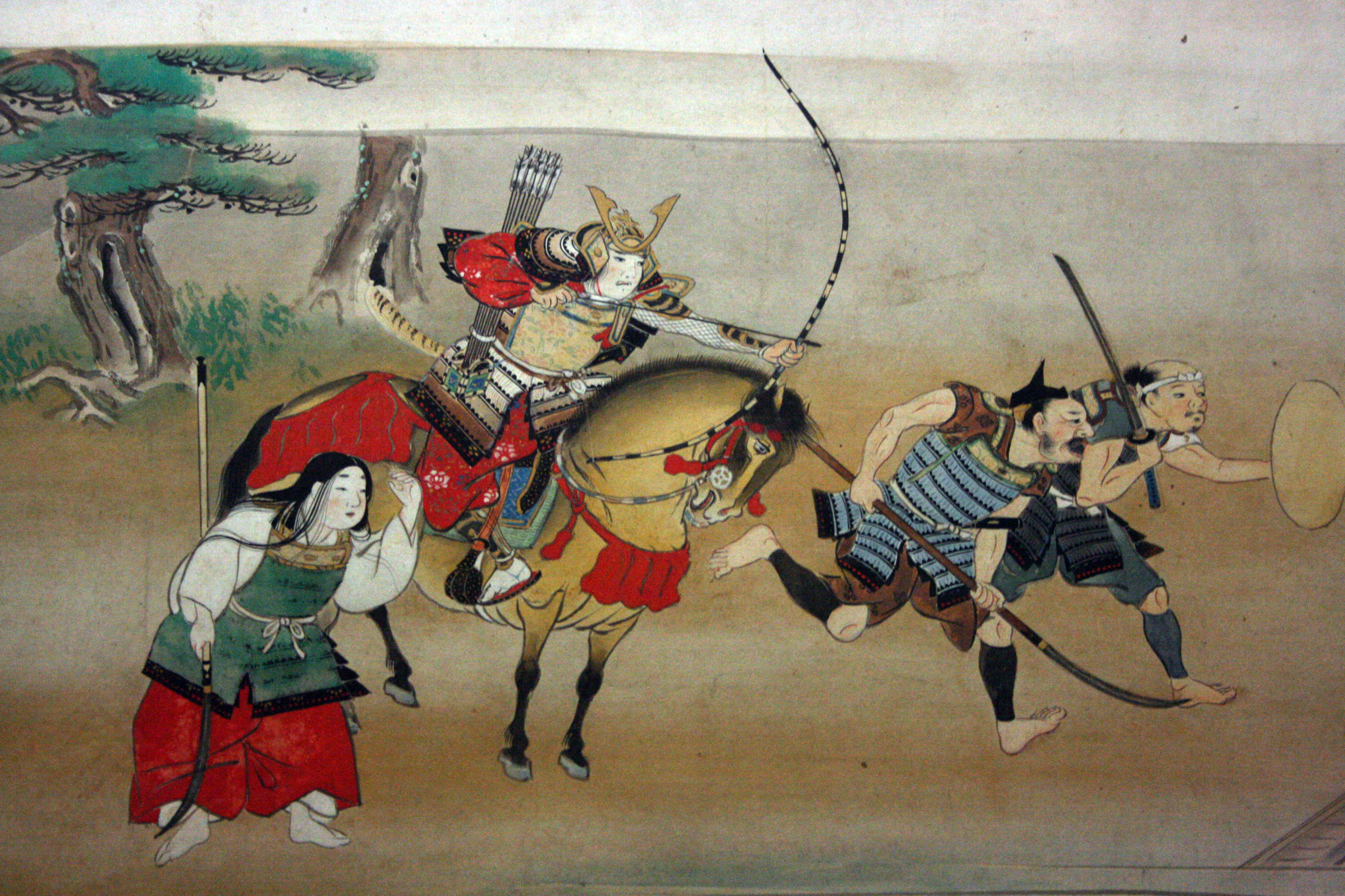 Illustrated Story of Night Attack on Yoshitsune's Residence At Horikawa, 16th Century